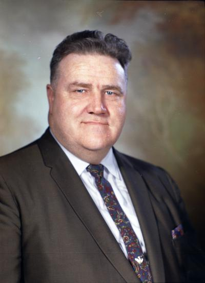 Senator Frank Connor, 1967